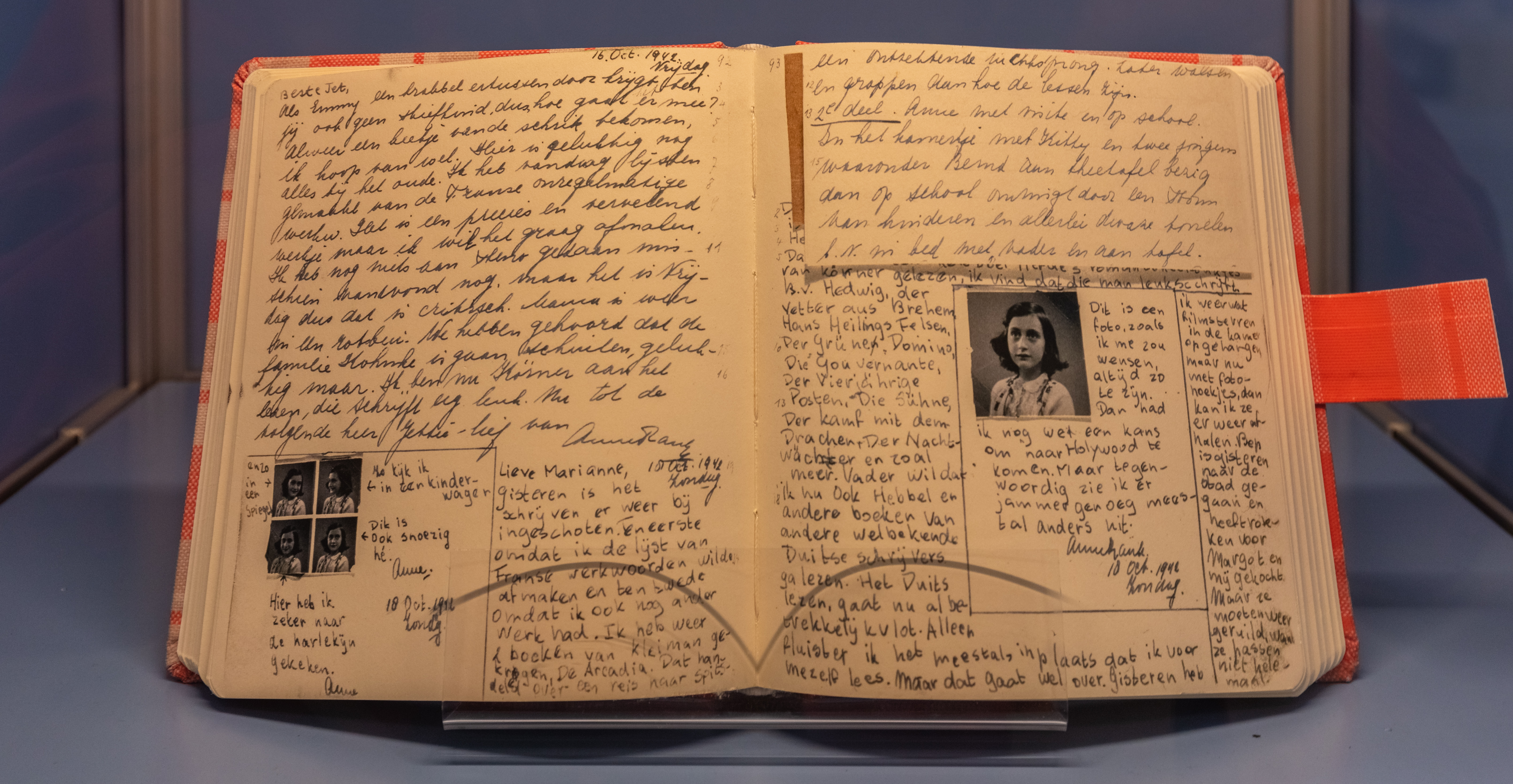 Anne Frank Diary, St Nicholas Church, Kiel, Germany